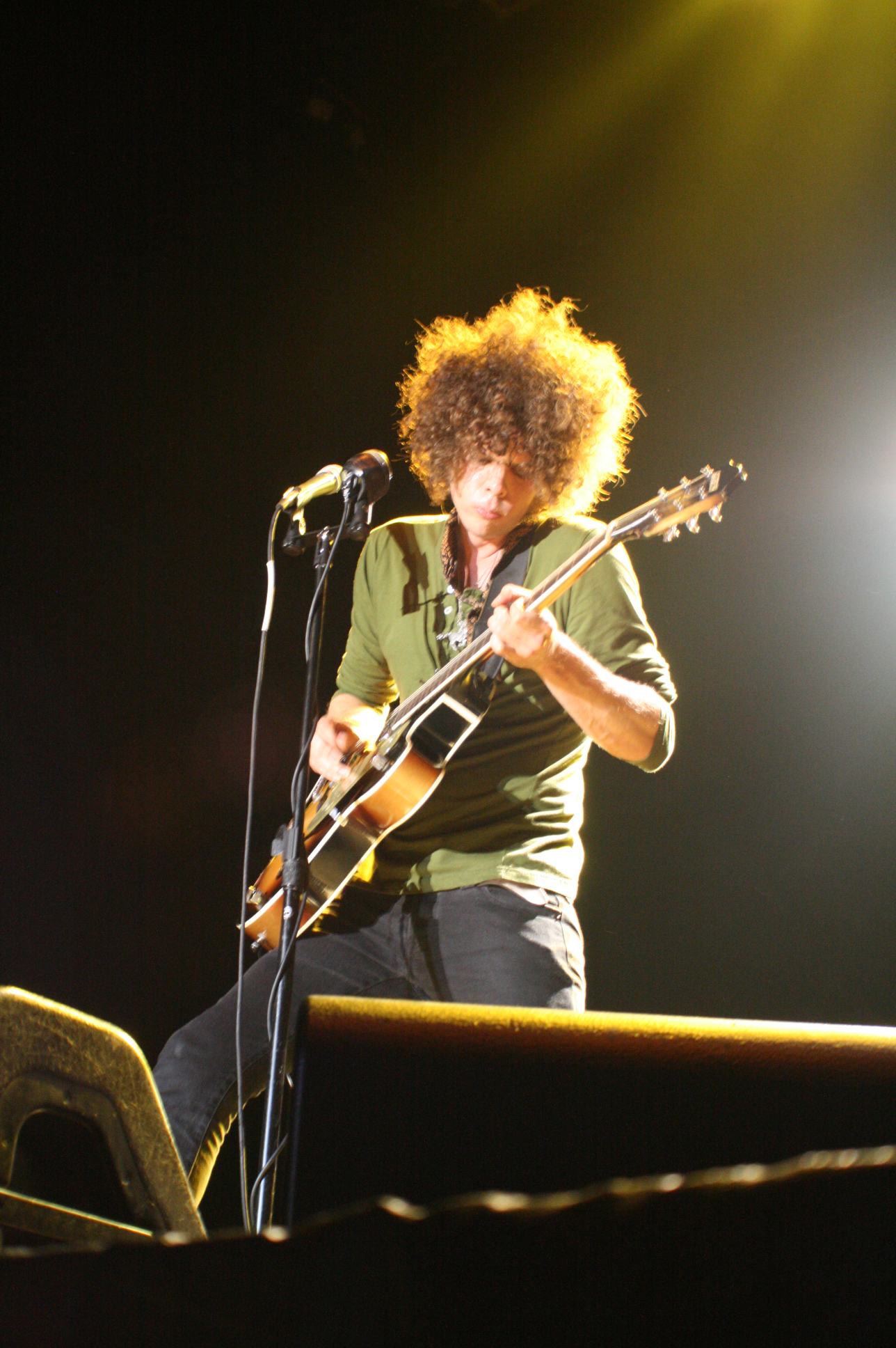 Andrew Stockdale of Wolfmother perforing on May 5, 2007 at the Beale Street Music Festival